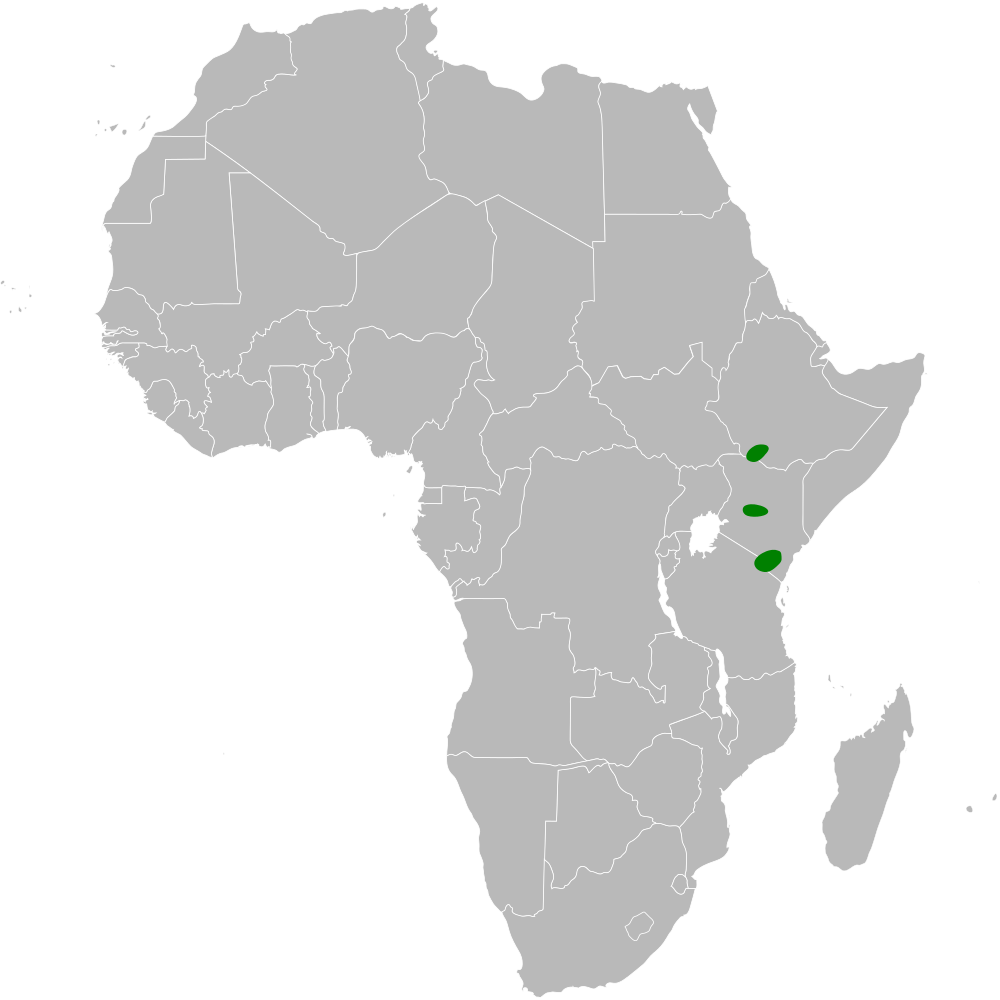 Mirafra pulpa distribution map; using BlankMap-Africa.svg, based on